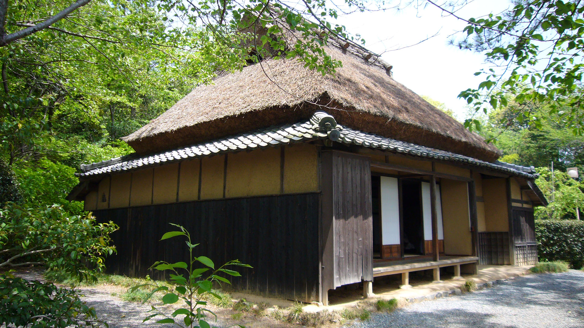 Kunio Yanagita's parents' home in Fukusaki, Hyogo prefecture, Japan